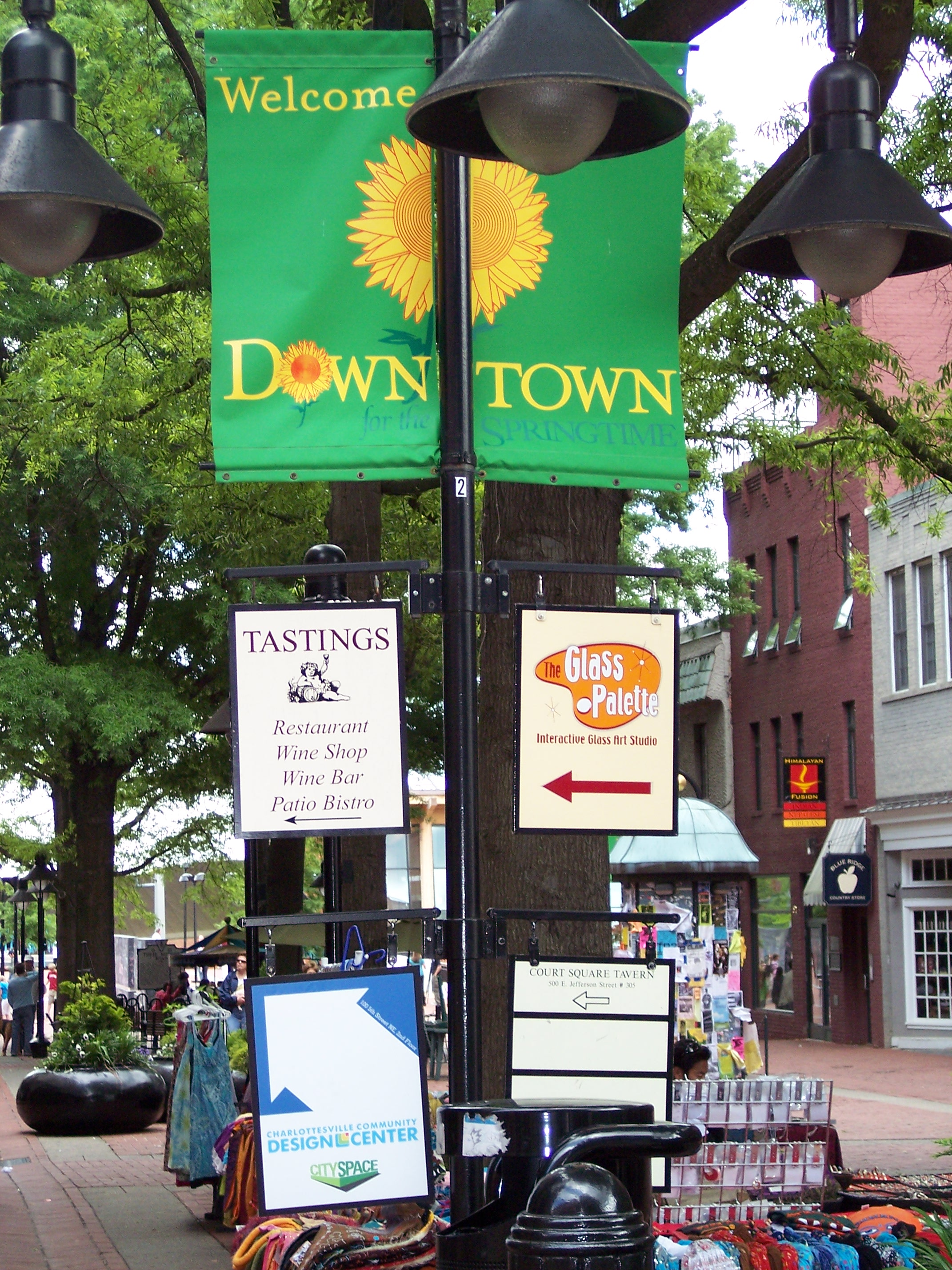 The Downtown Mall in Charlottsville, Va